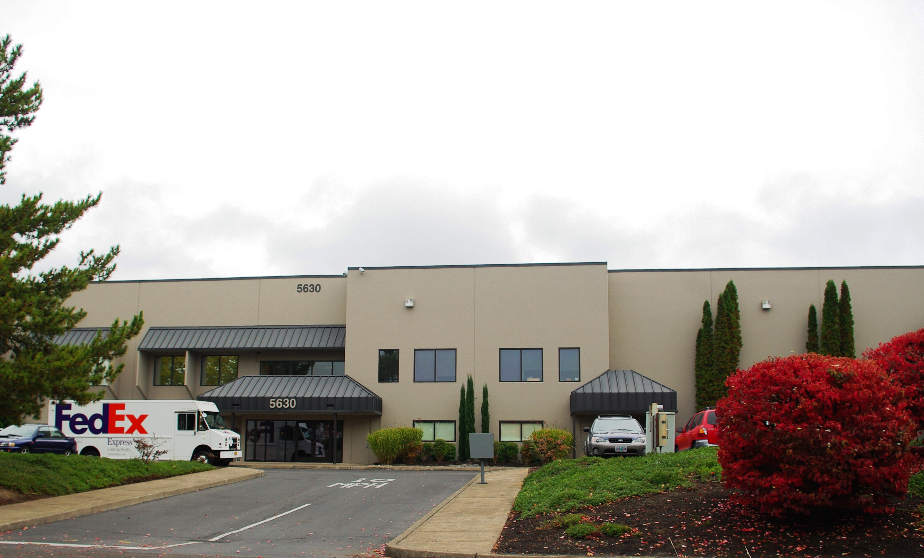 Parr Lumber headquarters in Hillsboro, Oregon, USA.